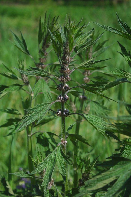 Leonurus cardiaca. Location: Letničie, western Slovakia